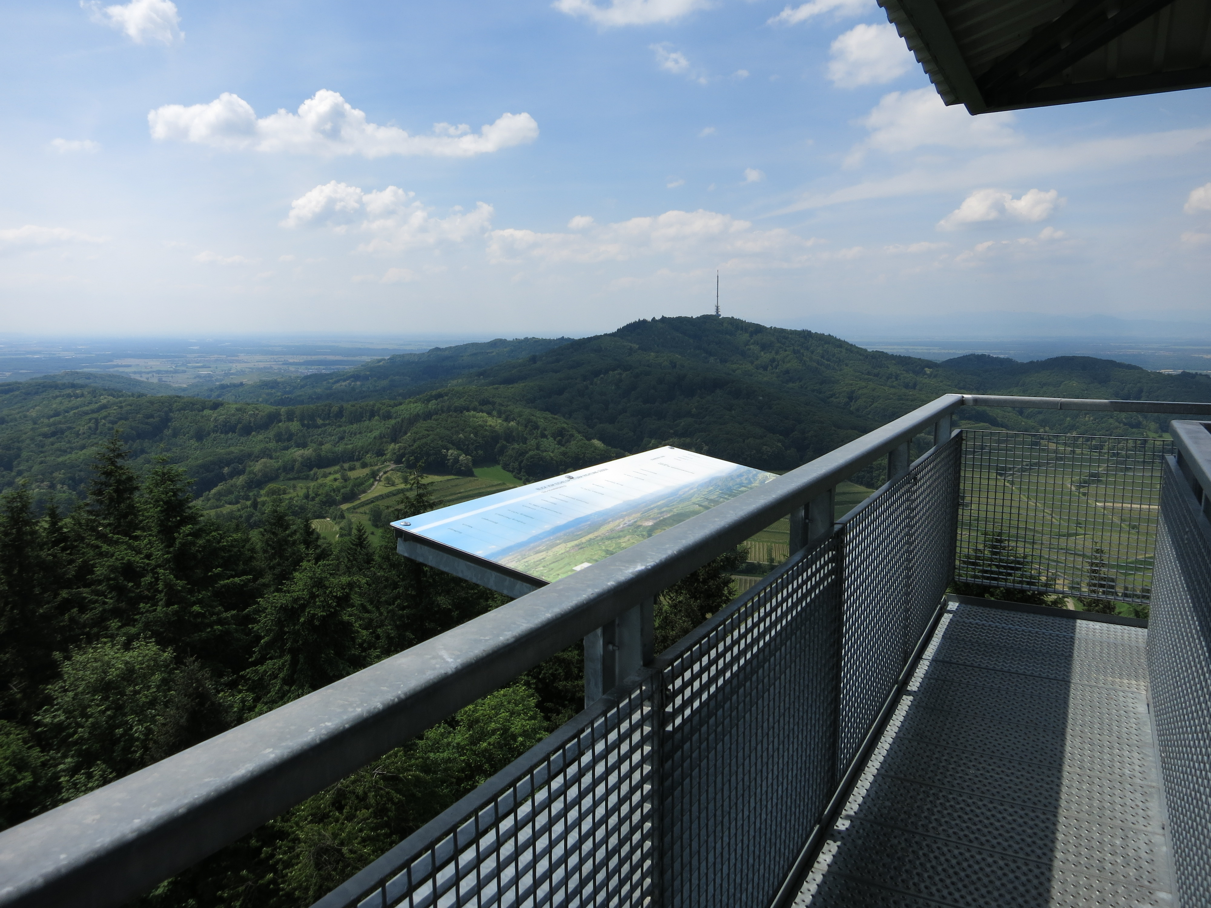 View from Eichelspitzturm, Kaiserstuhl